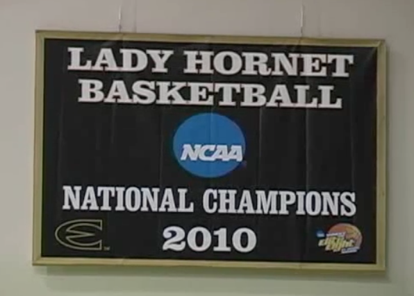 The 2010 Emporia State University Lady Hornet basketball national championship banner hanging in William L. White Auditorium.